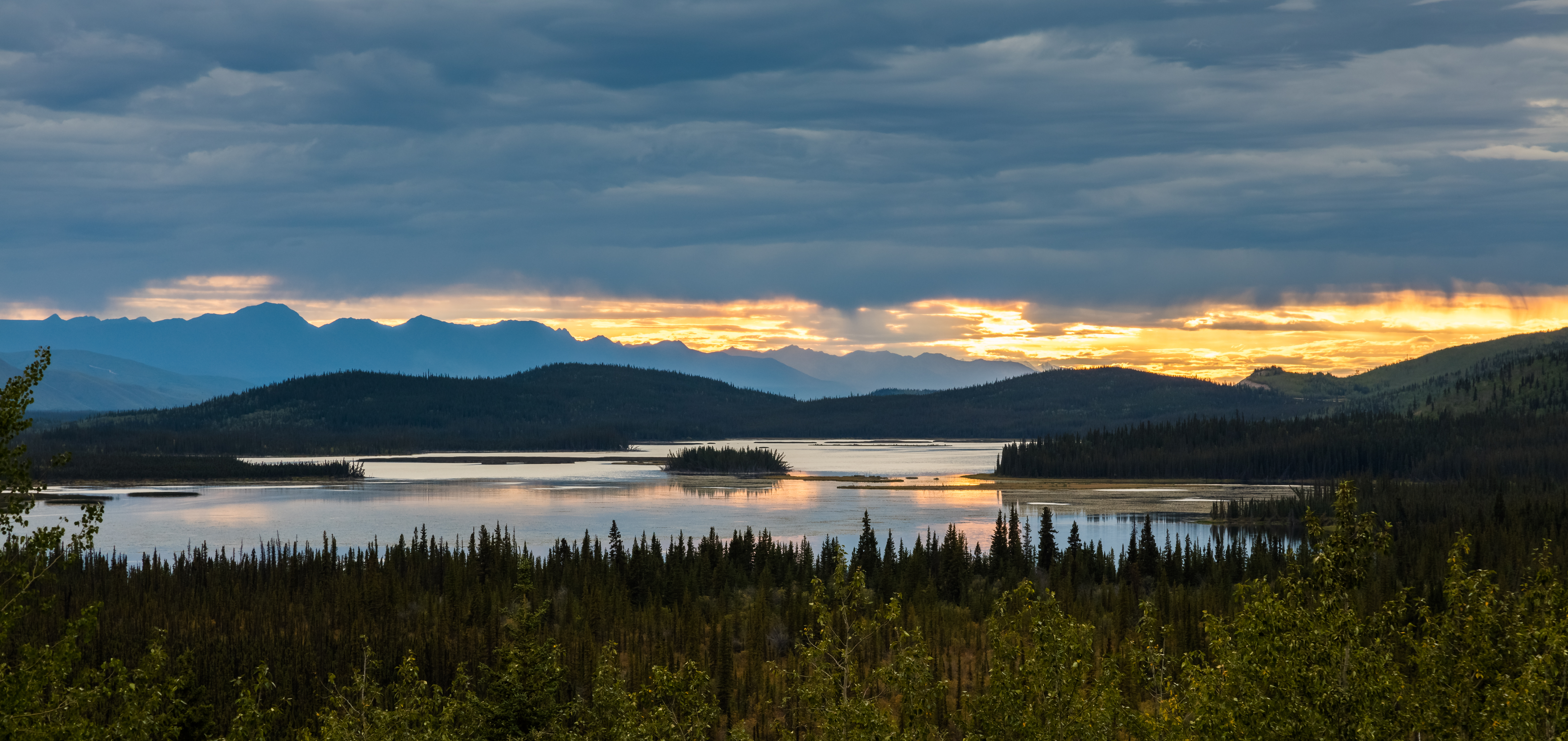 Sunset in Tetlin National Wildlife Refuge, Alaska, United States.